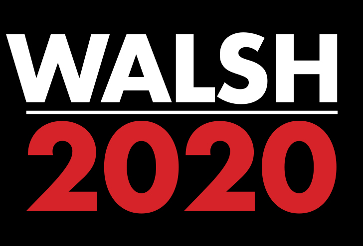 Walsh 2020